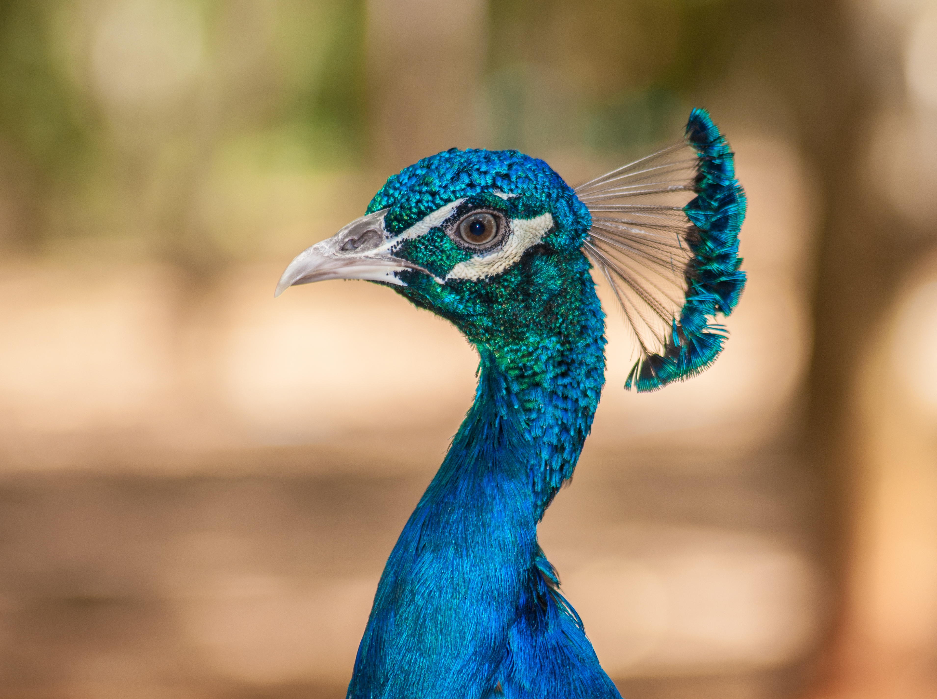 Pavo cristatus from Venezuela